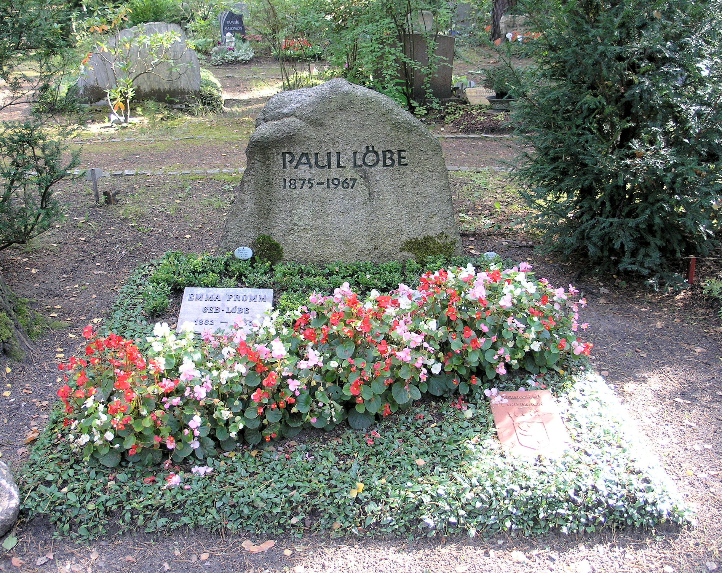 "Ehrengrab" (grave of honor), Paul Löbe, Potsdamer Chaussee 75, Berlin-Nikolassee, Germany